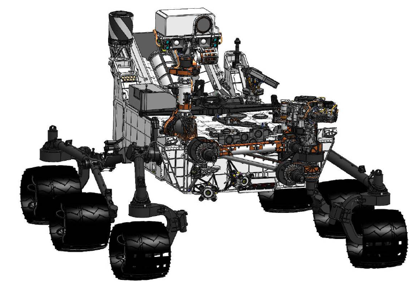 Curiosity diagram from page 234 of NASA/CP-2010-216272